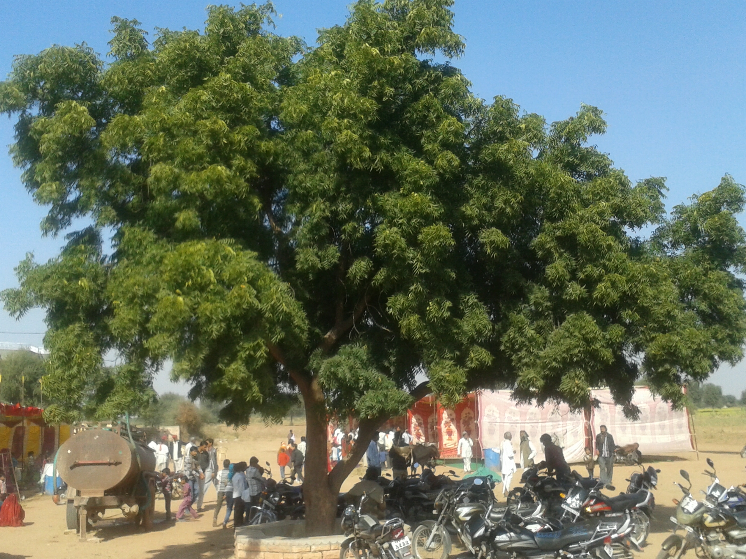 A neem tree in rajasthan